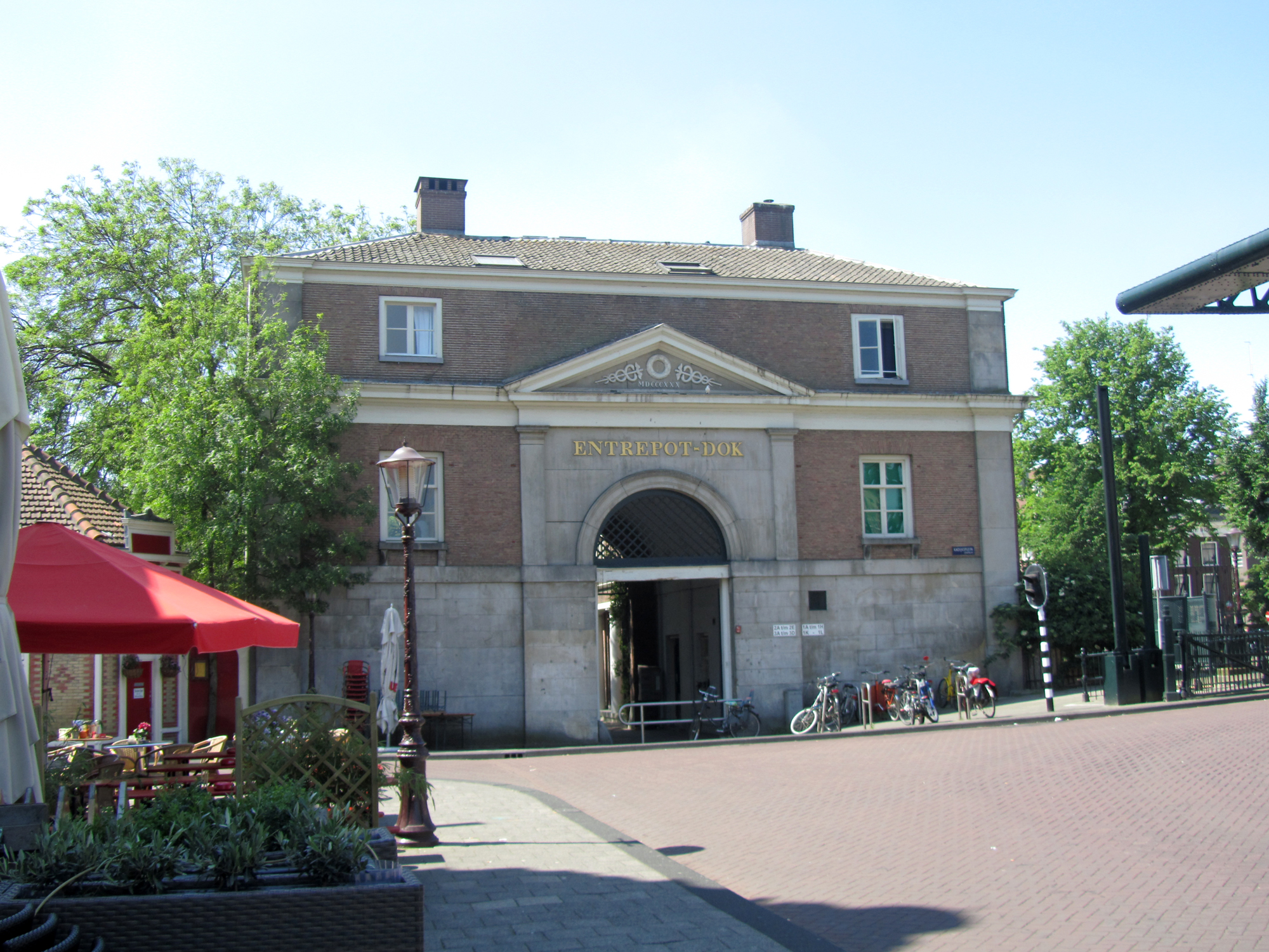 The gate building of the Entrepotdok in Amsterdam